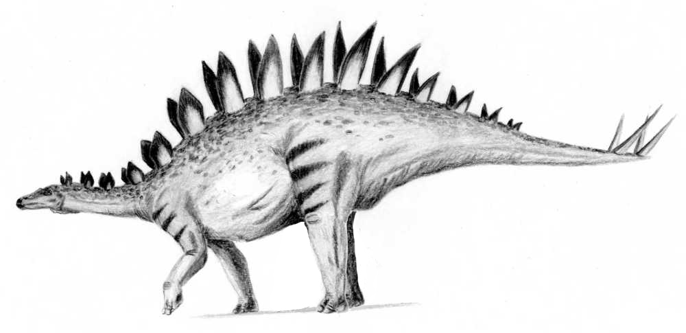 Tuojiangosaurus. Author:User:ArthurWeasley